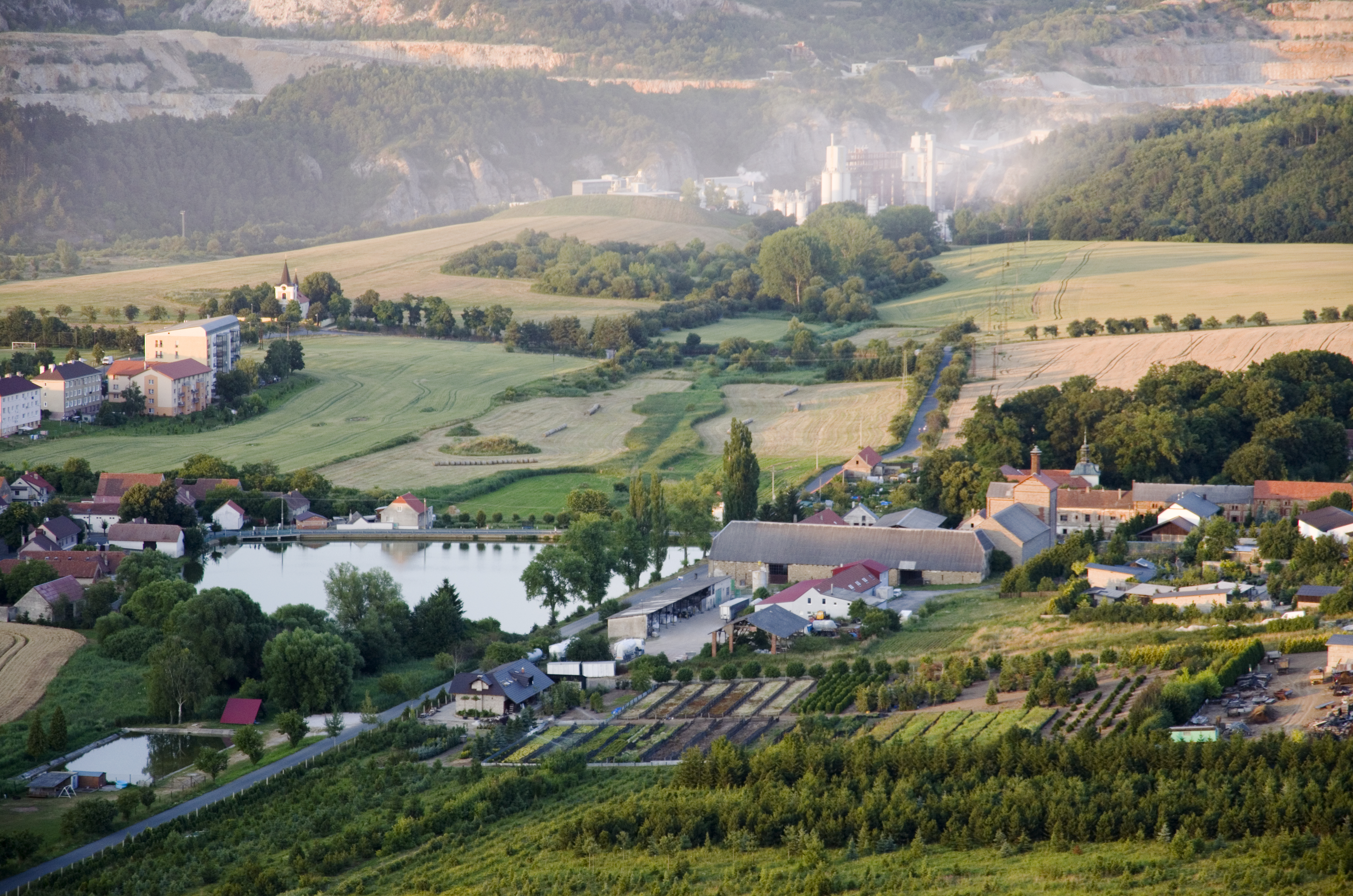 Tmaň village, Czech Republic